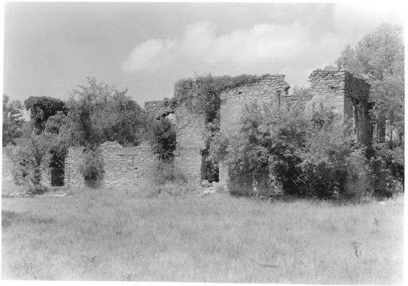 Barracks (West), east facade, looking west. Fort Washita site near Durant, Oklahoma, United States of America.